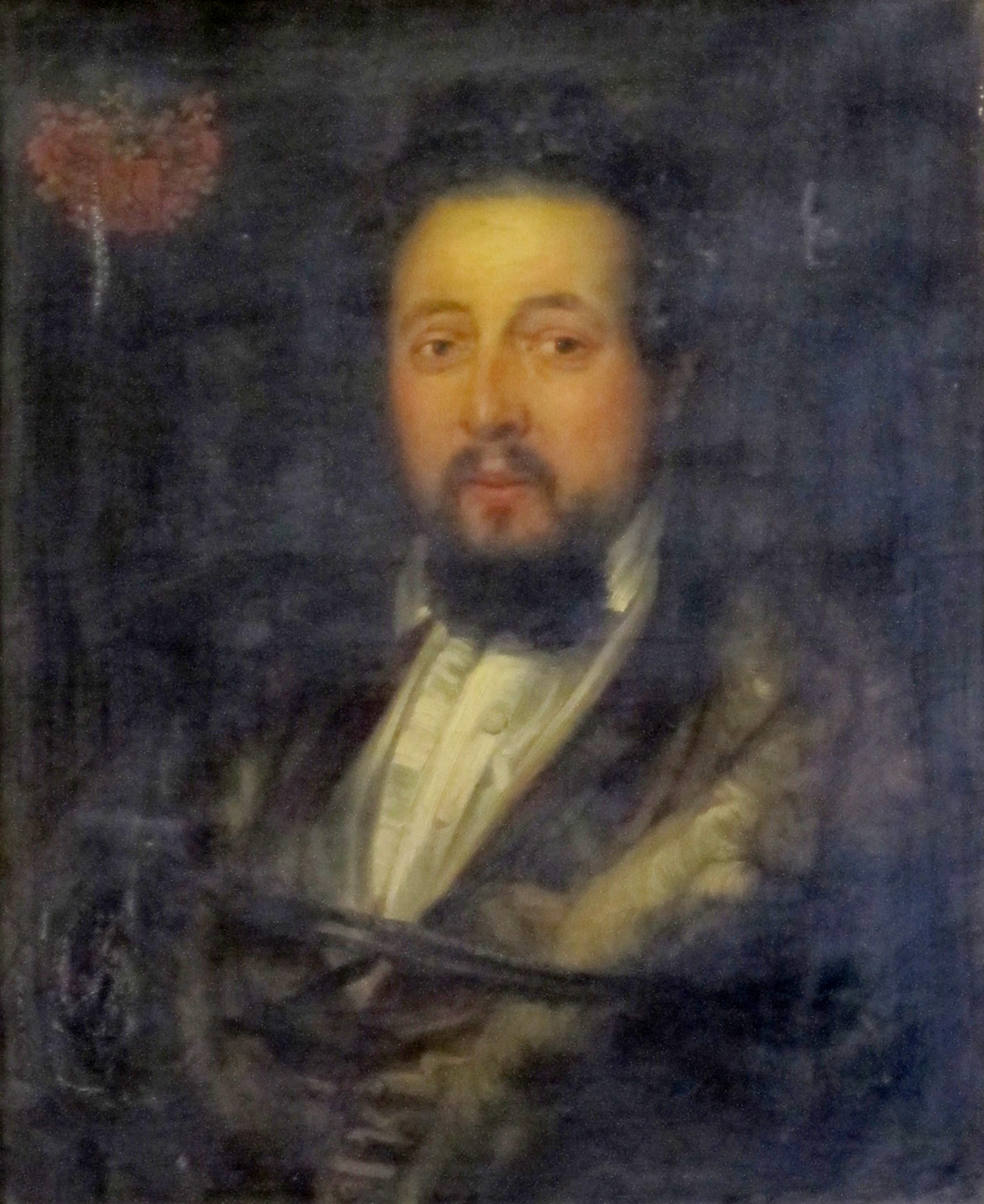 Baron Leopold Donatius Alexander Duvivier (1804-1878), avocat, président du tribunal de première instance de Malines